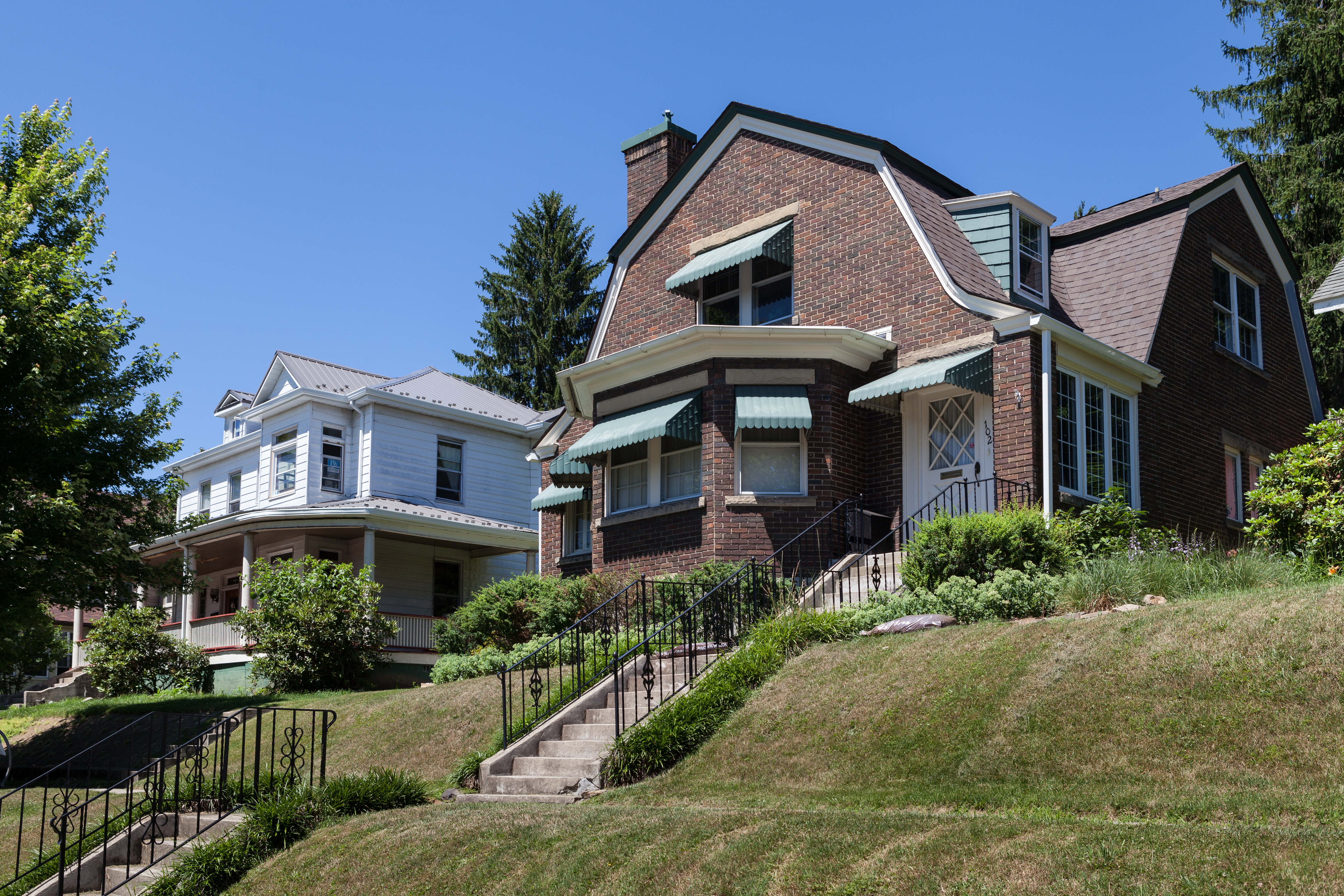 Wees Historic District, two contributing houses at 102 and 106 Boundary Avenue